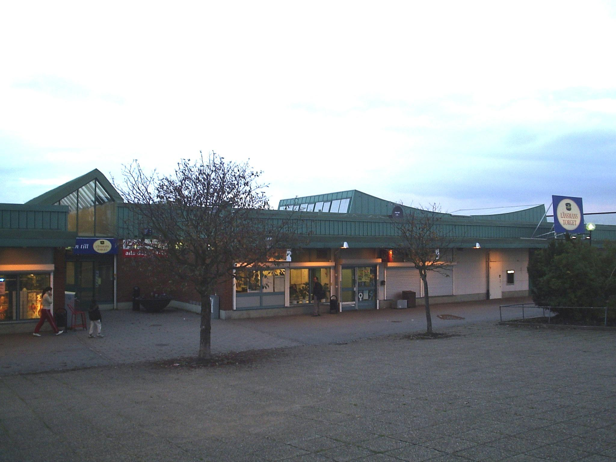 Photo by Harri Blomberg.